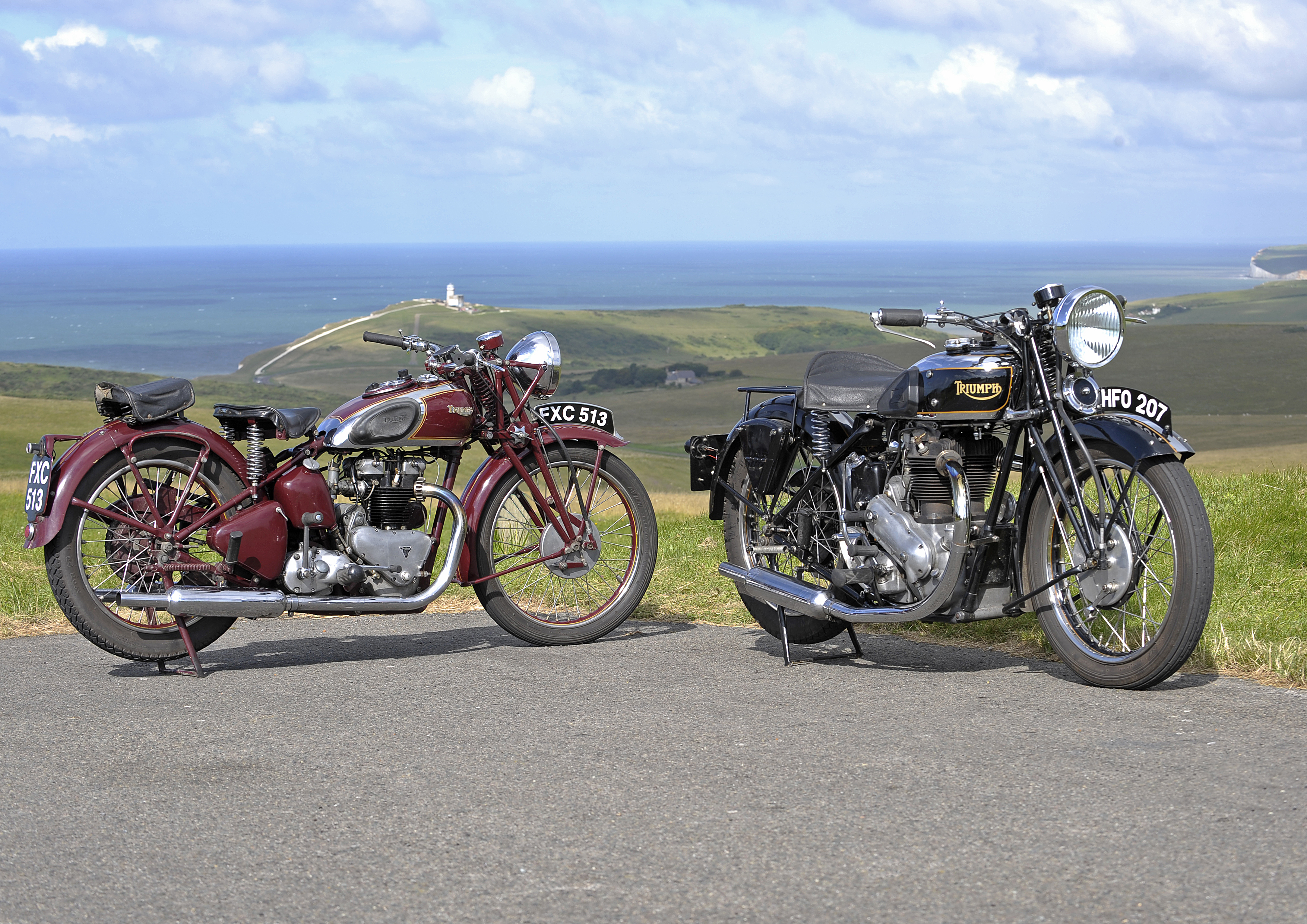 The Edward Turner designed Speed Twin sits next to the Val Page designed 6/1 (which was the first parallel twin from the company).